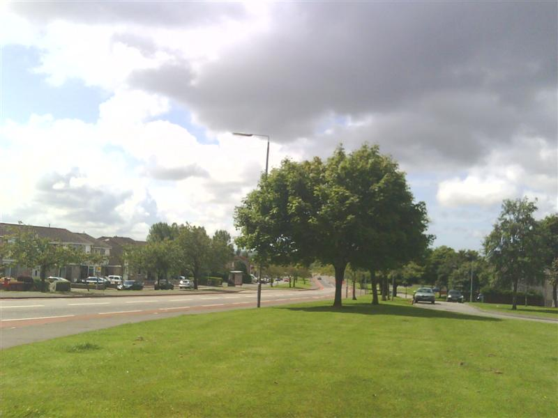 Looking down Grassyards Road